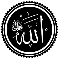 Arabic calligraphy reading "Allahu jalla jalaluhu". It is closely modelled on the "Hagia Sophia medal" but unlike there, "Allah" is spelled with explicit hamzat al-wasl. This spelling is unusual, not to say unreferenced. This highly unusual (or wrong?) spelling has now become ubiquitous on Wikipedia via the descendants of this image (and via the usual Wikipedia ripoffs, on the internet in general)